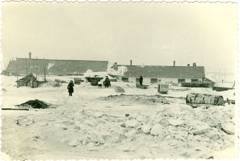 Vorkuta in winter. In the distance – barracks for the deportees.